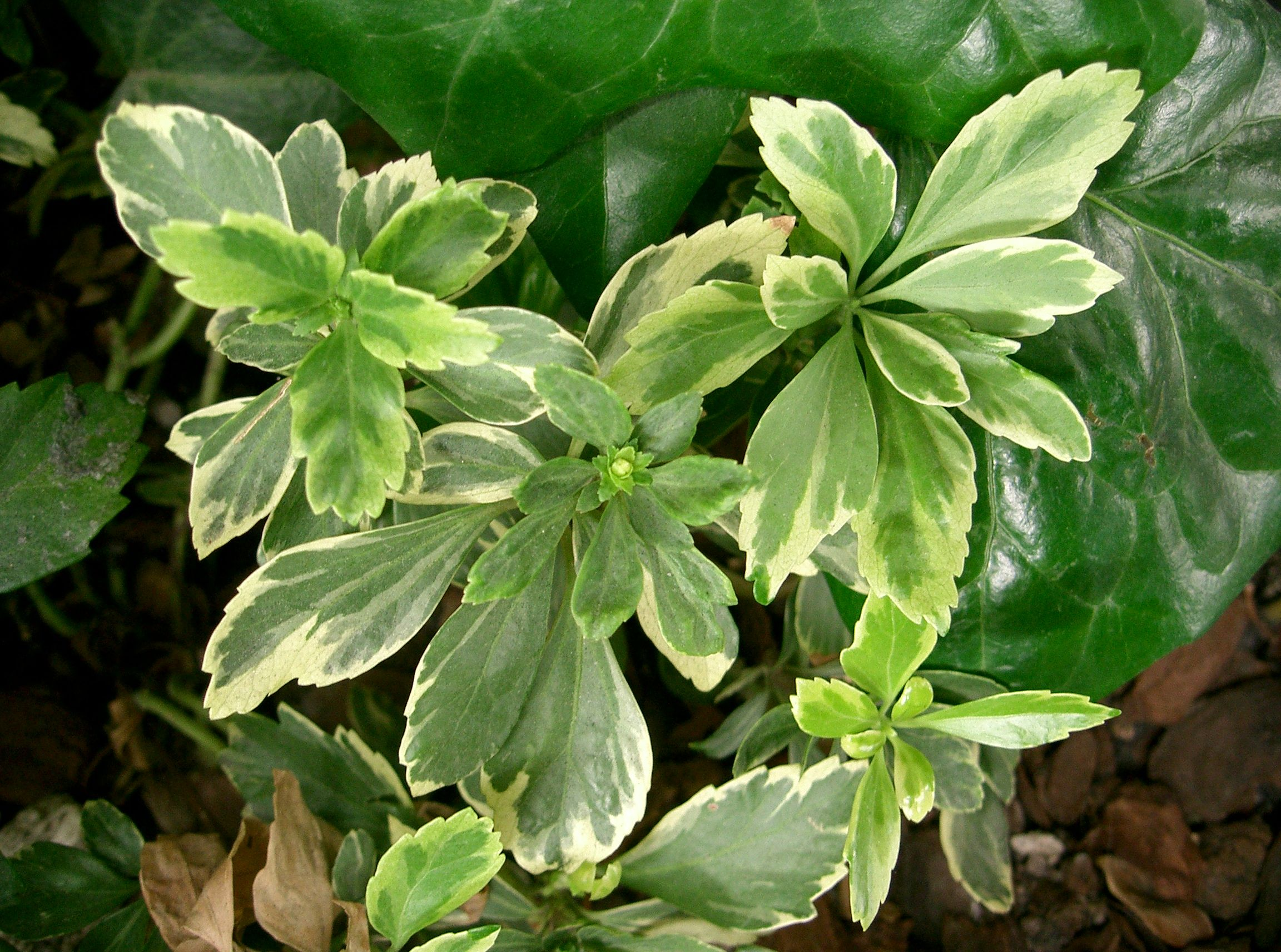 Pachysandra terminalis